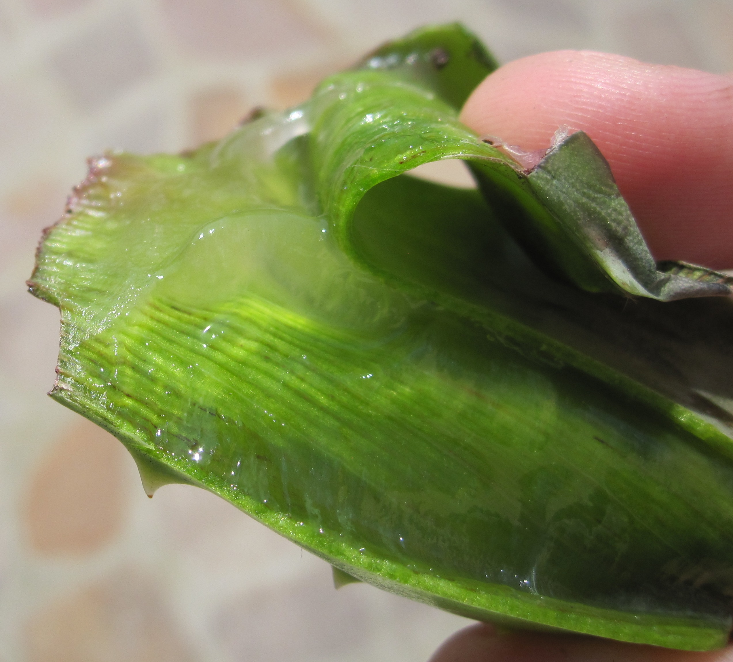 Close-up photo of manual extraction of some gel from a piece of aloe vera